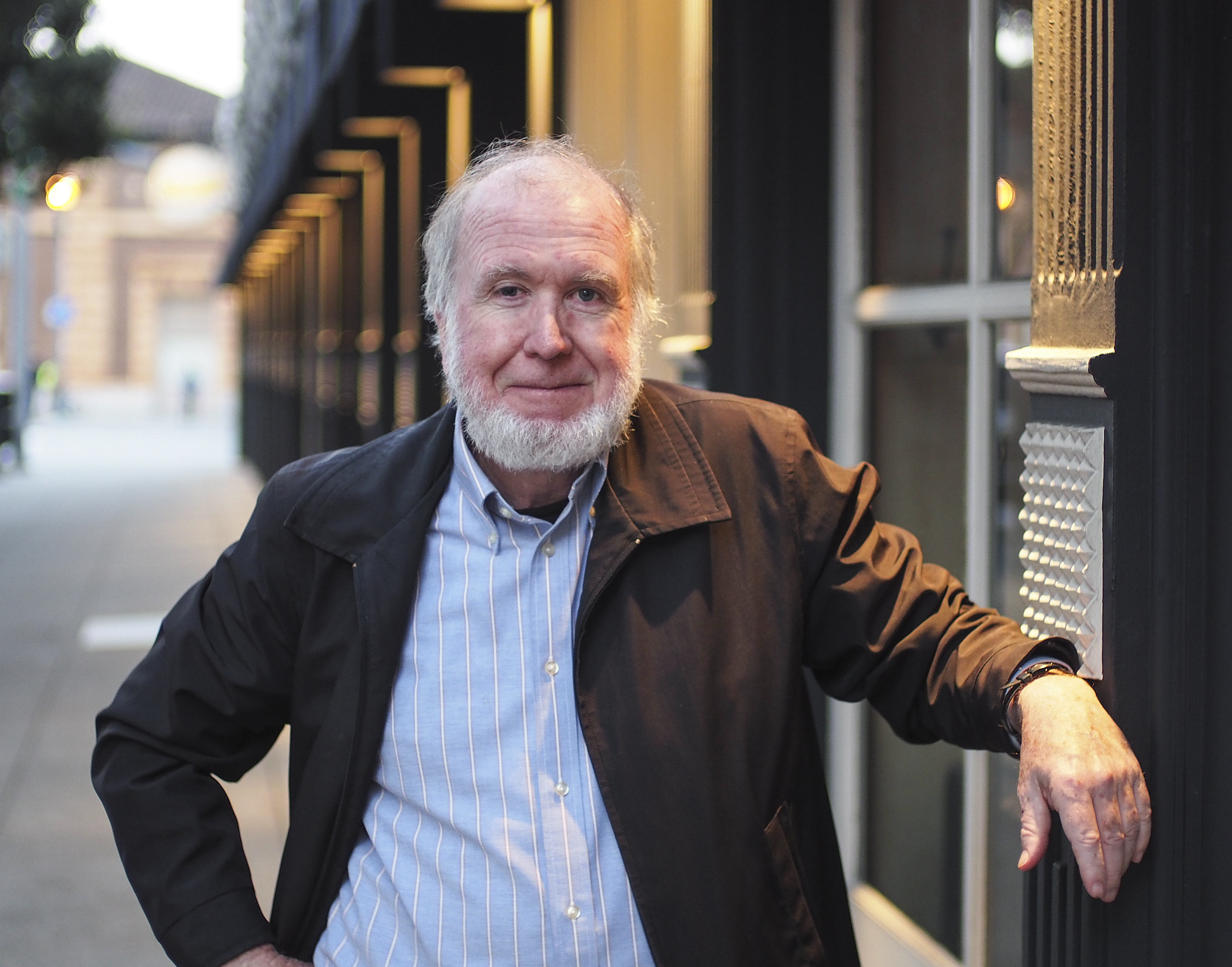 Kevin Kelly.